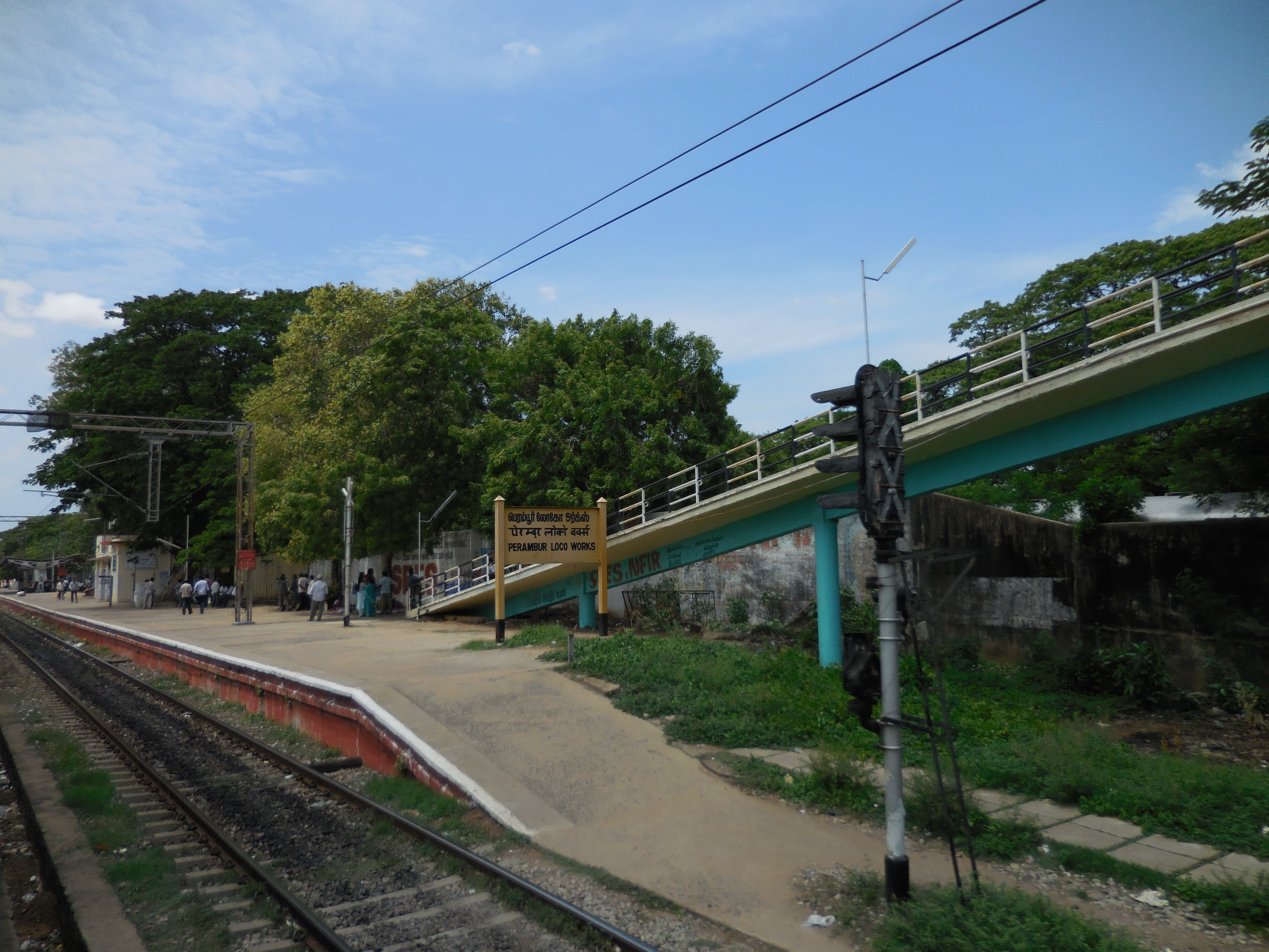 Perambur Loco Works railway station, Chennai, western end, taken on 15 July 2014 at noon.